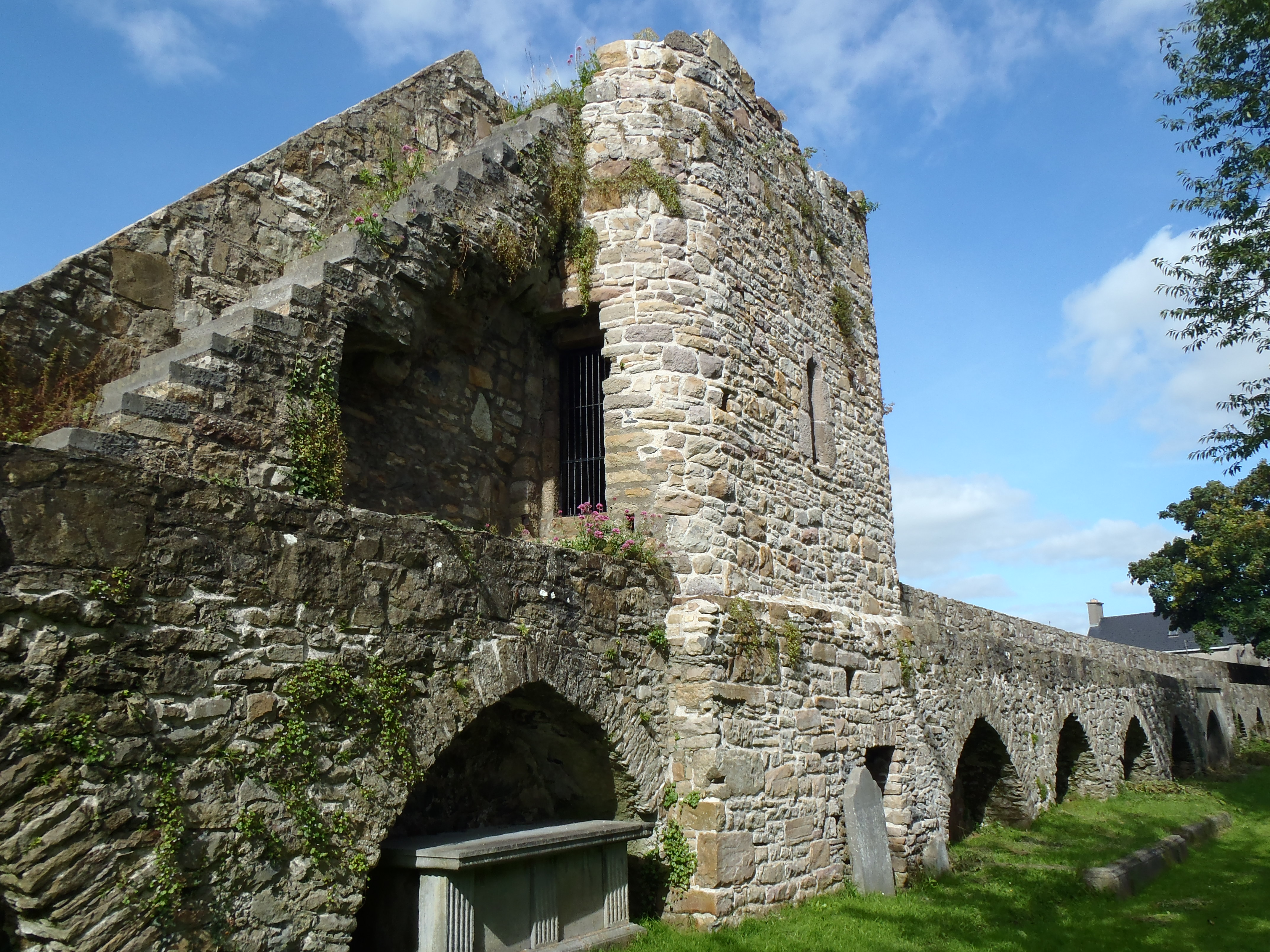 The IWTN and Tipperary County Council have worked together to ensure that the remaining town walls of Clonmel are conserved and presented to the public.